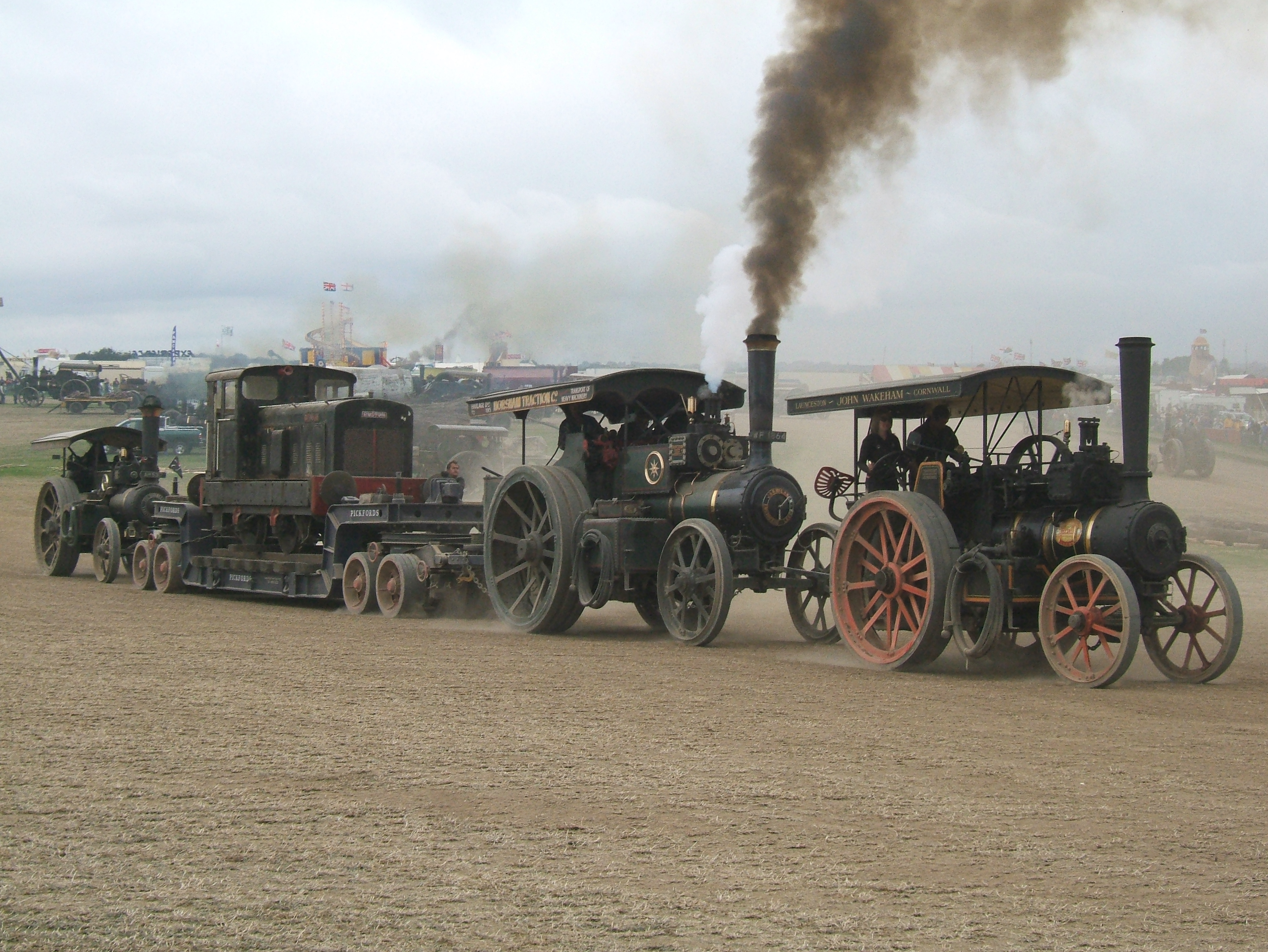 Great Dorset Steam Fair -- Heavy Haulage Arena